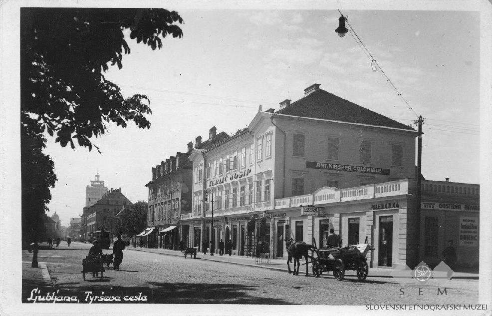 Postcard of Ljubljana, Bavarski dvor